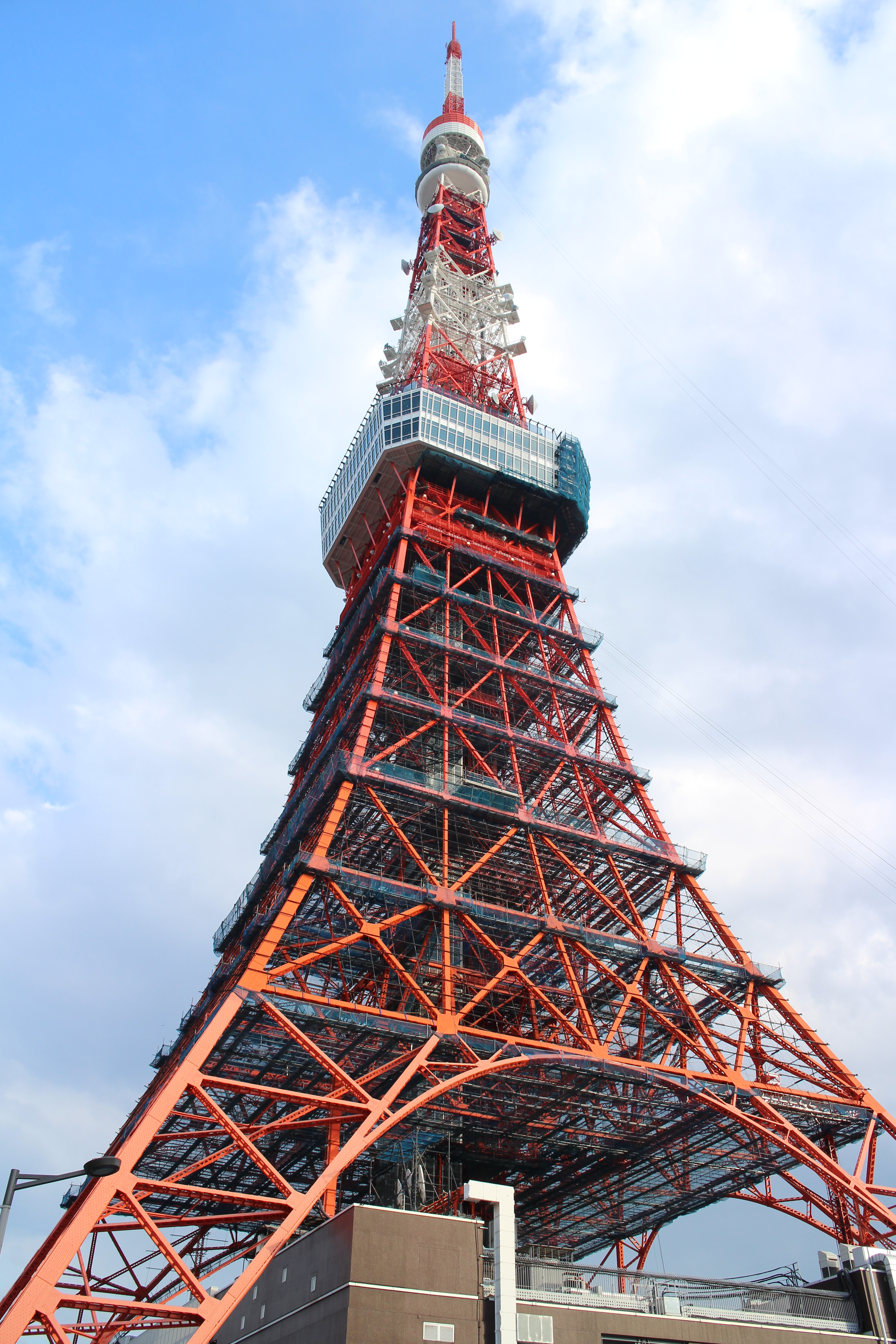 Tokyo Tower